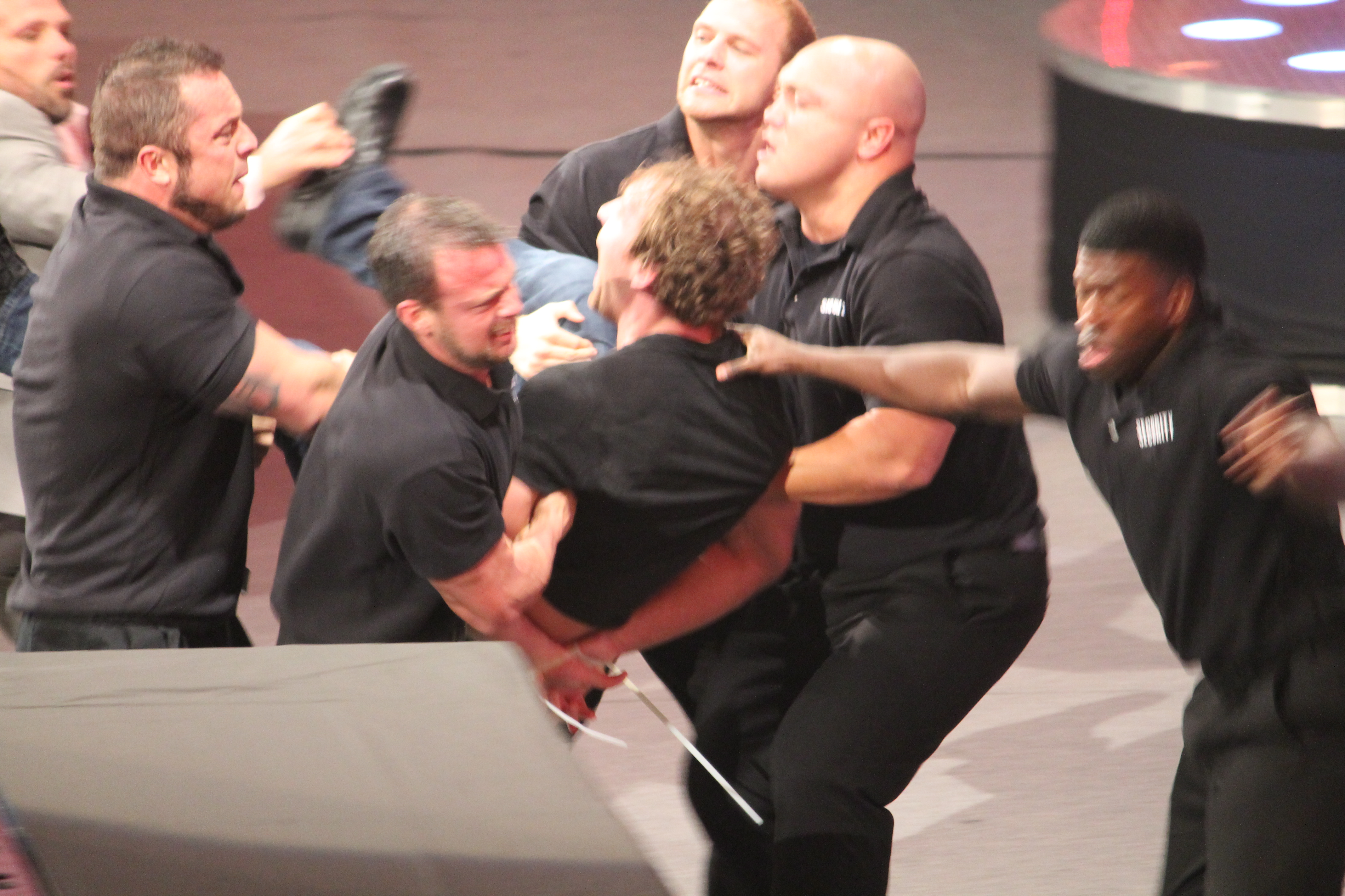 Dean Ambrose being carried from the arena at Night of Champions on September 21, 2014.